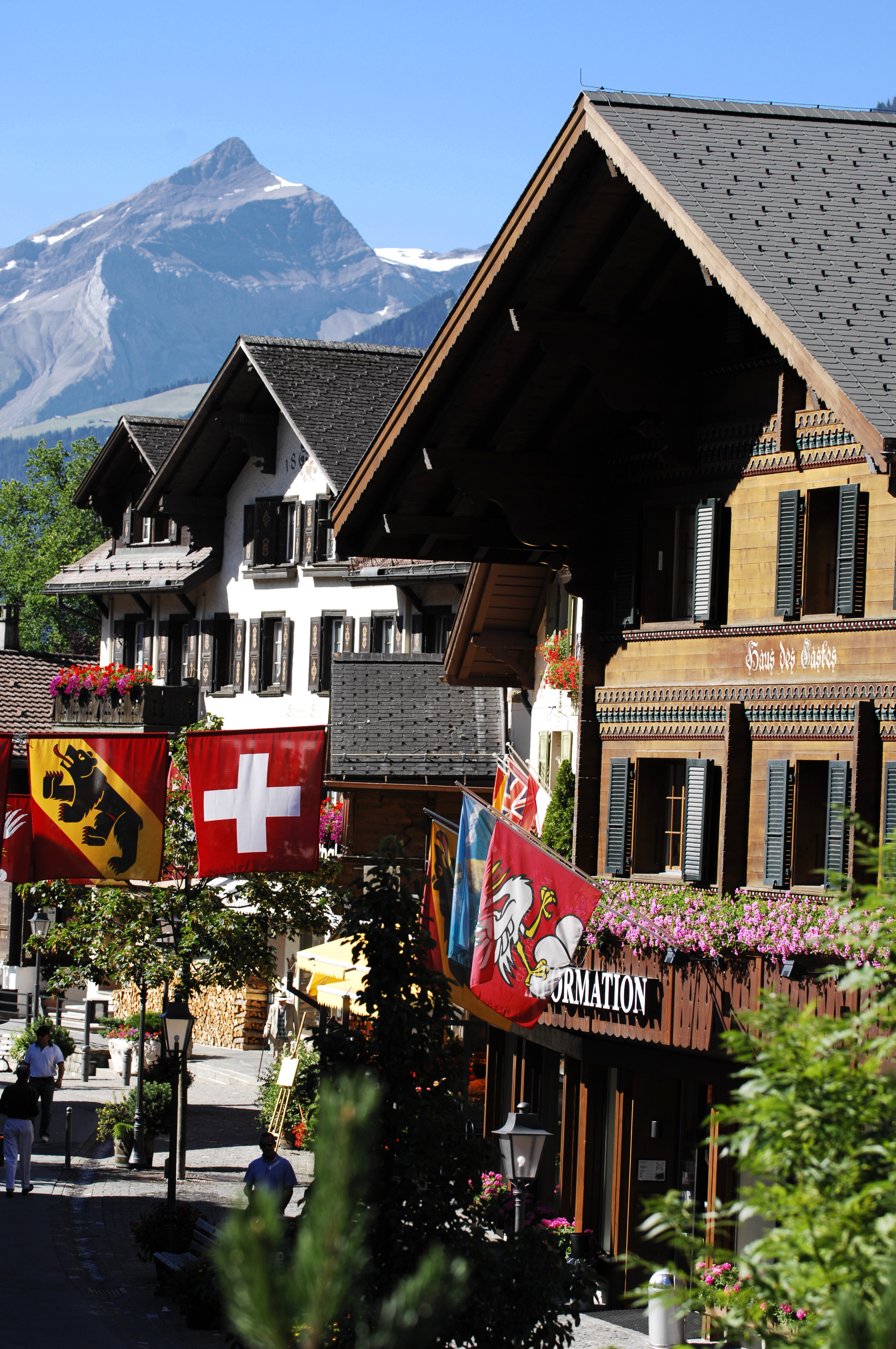 A walk trough Gstaad